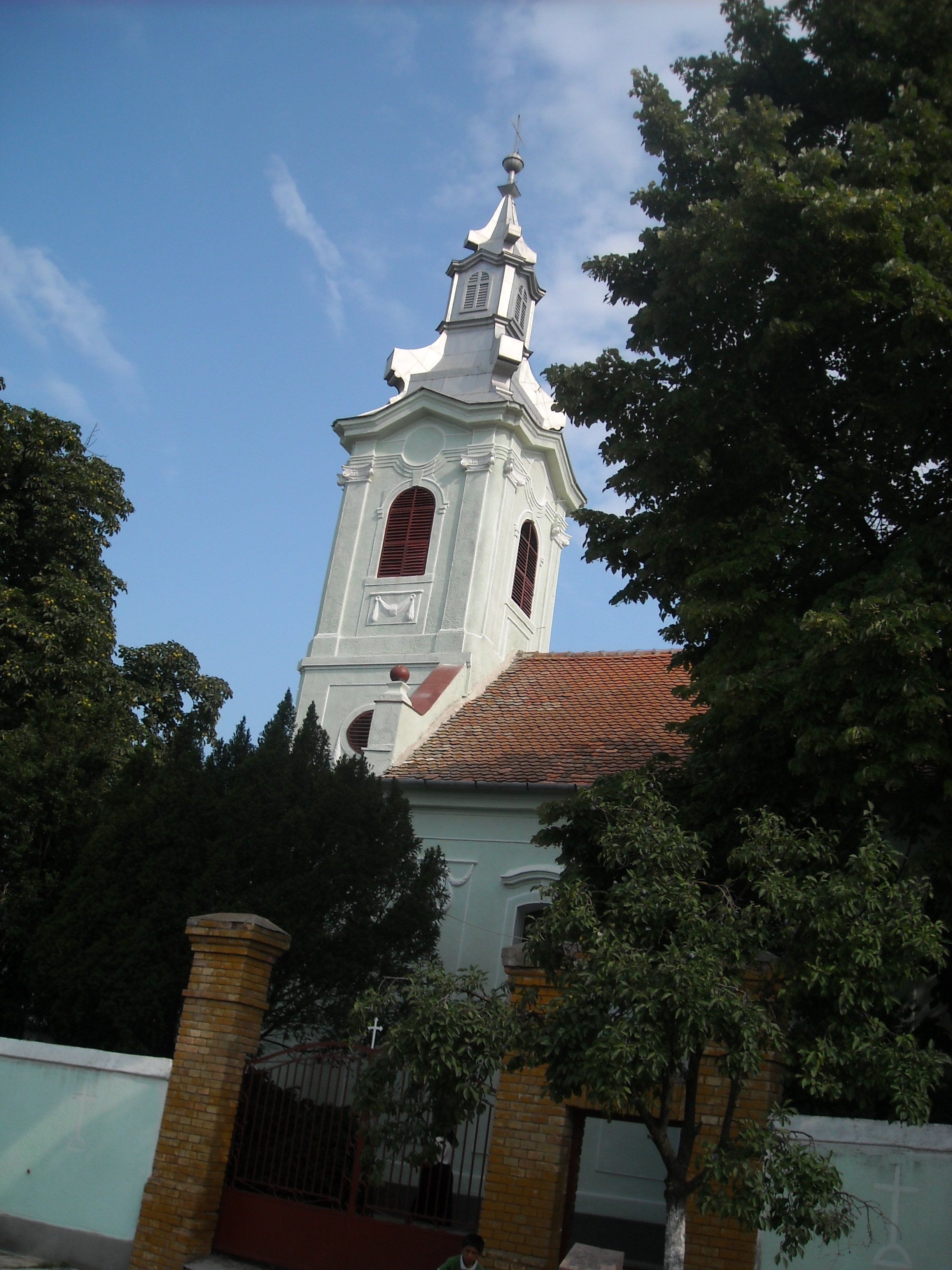 Orthodox church in Mâsca, Romania